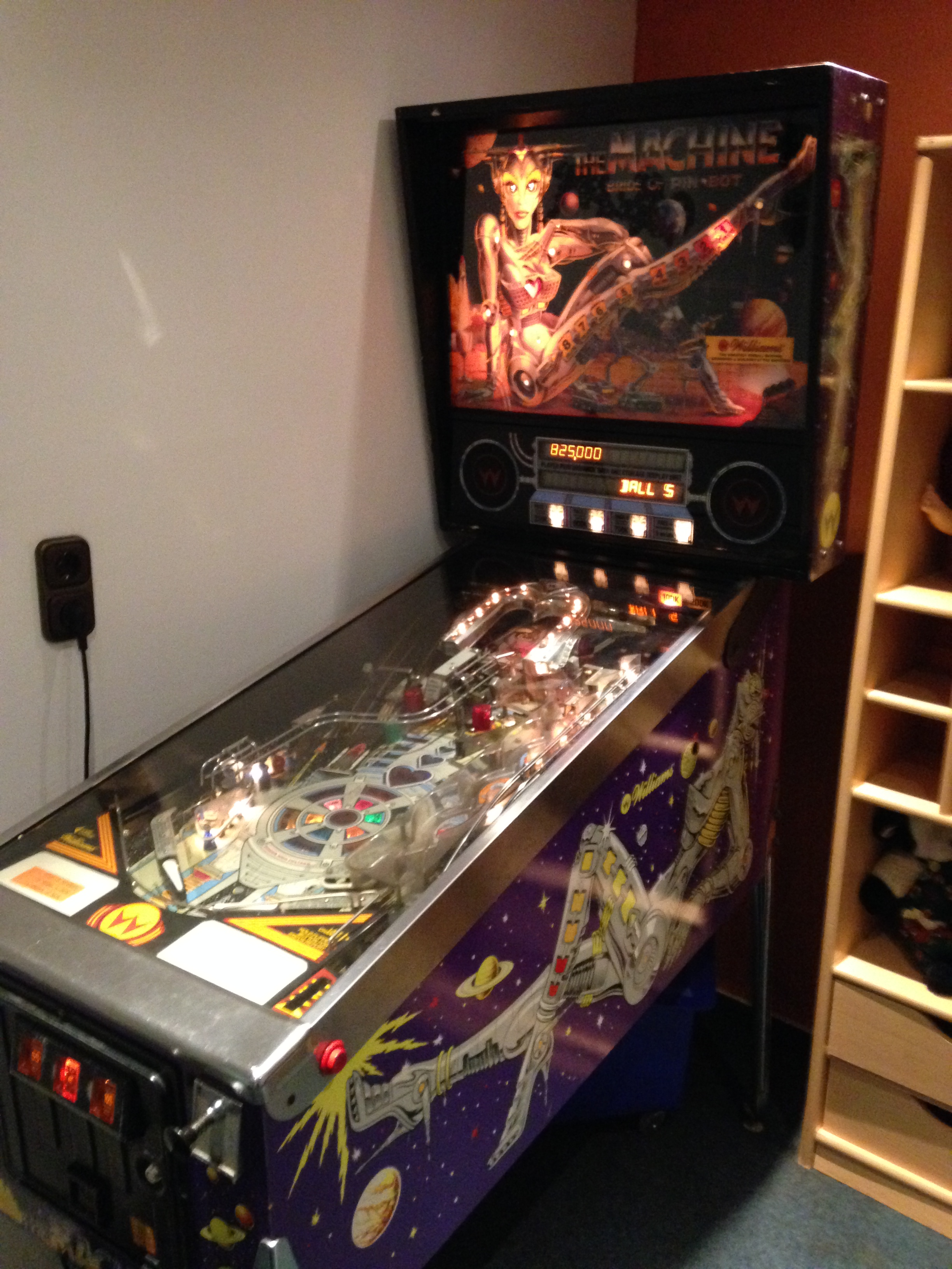 Flipper The Machine